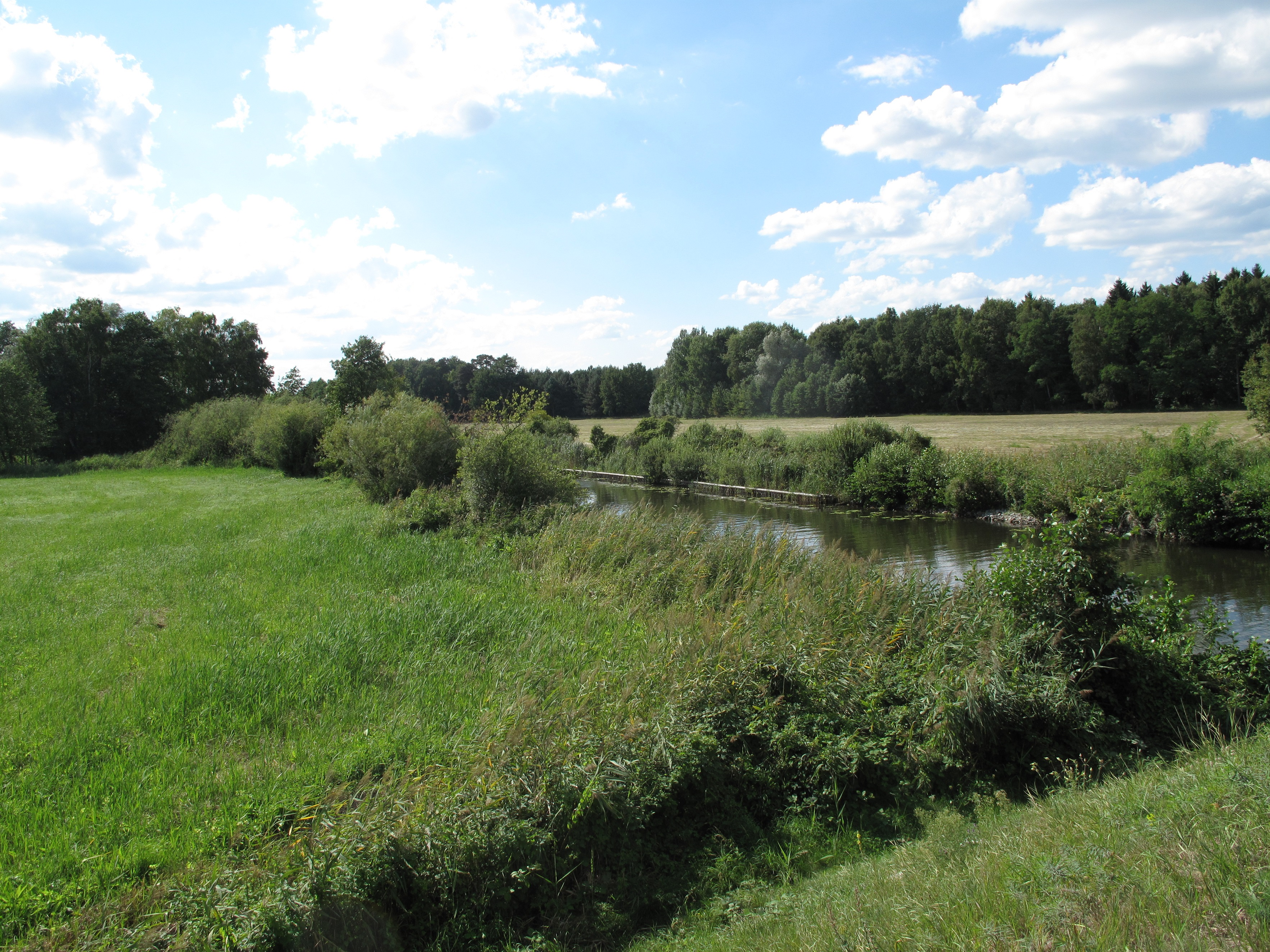 Storkower Kanal (water canal) in the Luchwiesen. The „Naturschutzgebiet Luchwiesen“ is a Naturschutzgebiet (protected area) and Natura 2000-area in the district Oder-Spree in Brandenburg, Germany. It is situtaed in the territory of the town Storkow and in the territory of Storkow’s Ortsteil (quarter)) Philadelphia (village). The area covers 109,57 hectare, is flown by the Storkower Kanal and is placed in the Dahme-Heideseen Nature Park. It is characterised among others by inland salt marsh-meadows and makes up according to the German Federal Agency for Nature Conservation (Bundesamt für Naturschutz – BfN) the largest and most important inland salt marsh in Brandenburg.